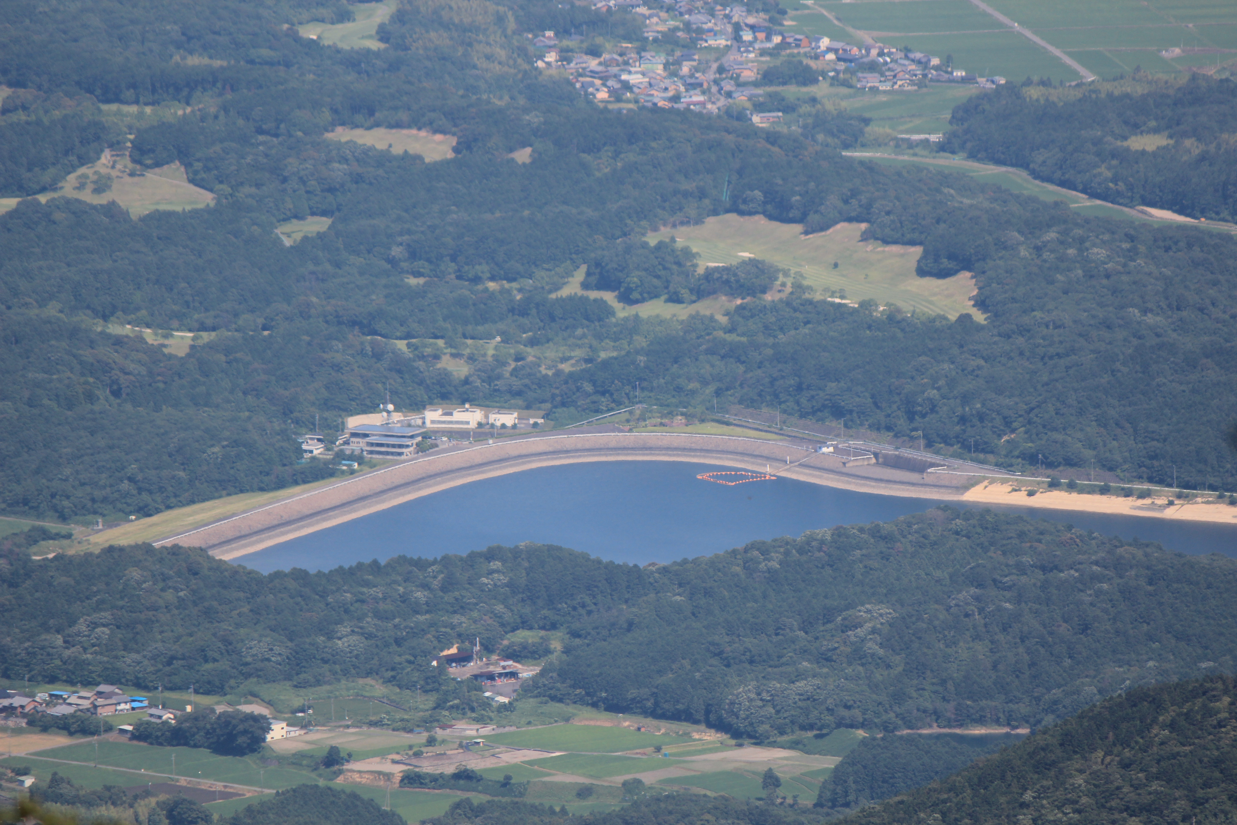 Lake Kirara (Komono Dam) seen from Mount Gozaisho (Suzuka Mountains) in Komono, Mie Prefecture, Japan.